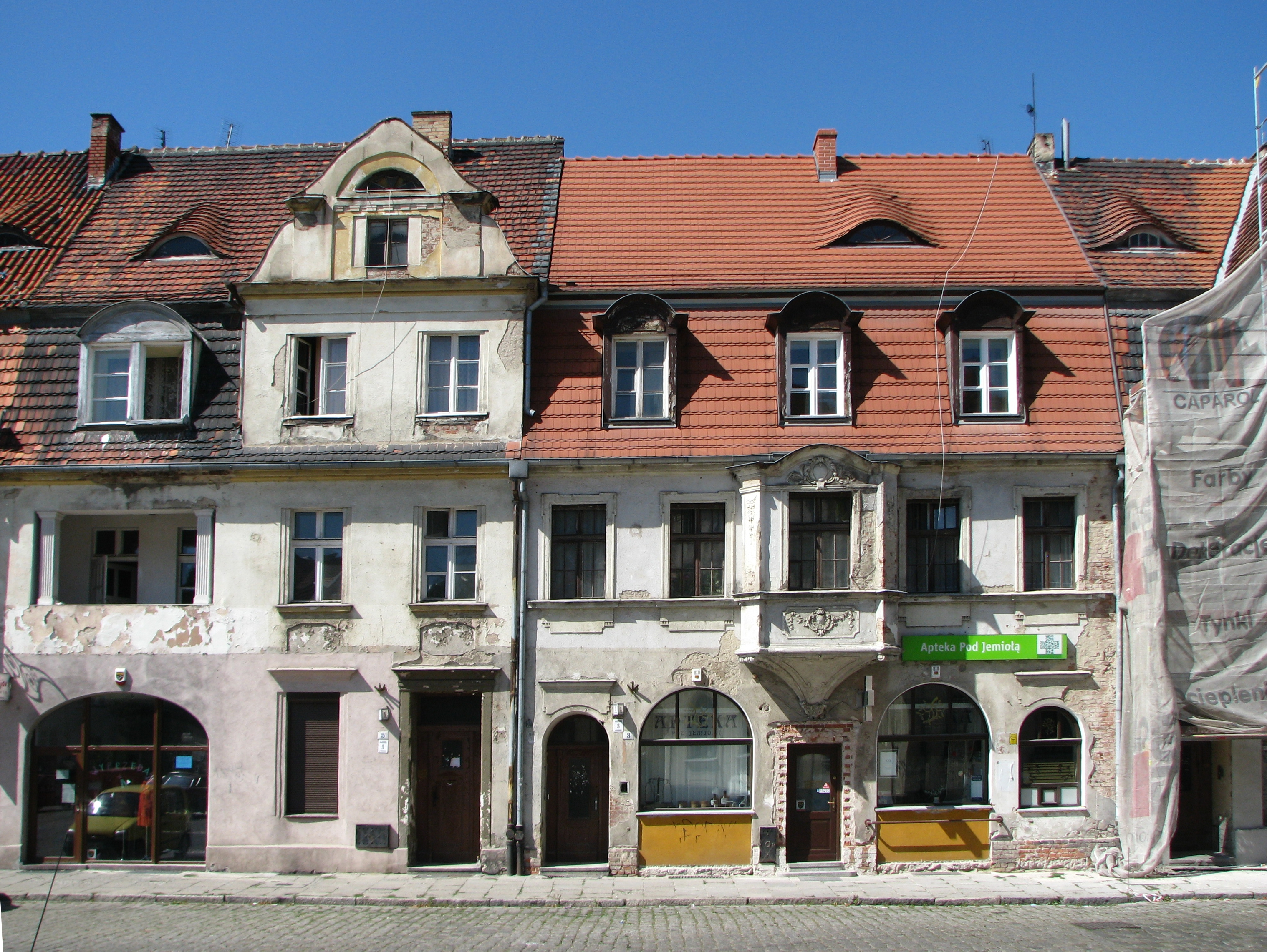 House at 3 Piłsudskiego Square, Wrocław, Poland. Cultural heritage monument.